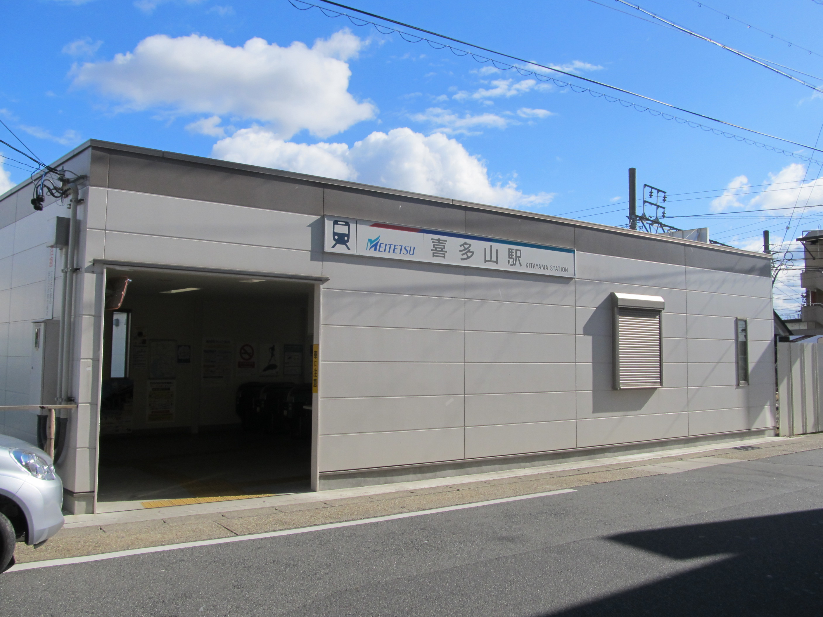 Nagoya Railroad Seto Line Kitayama Station Building (temporary)